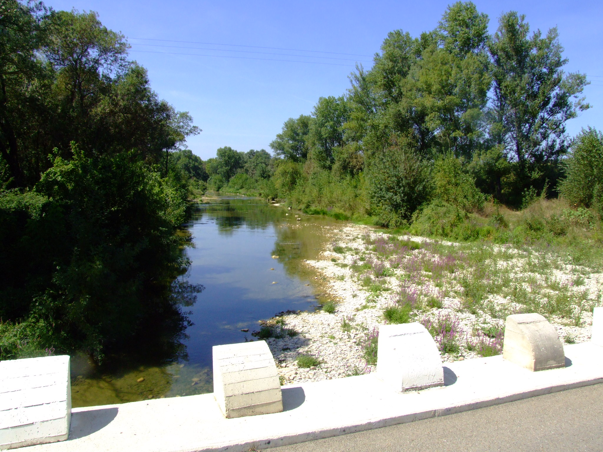 Sardan is village on the banks of the Vidourle in the department of Gard, France, some 20 km north of Sommières..